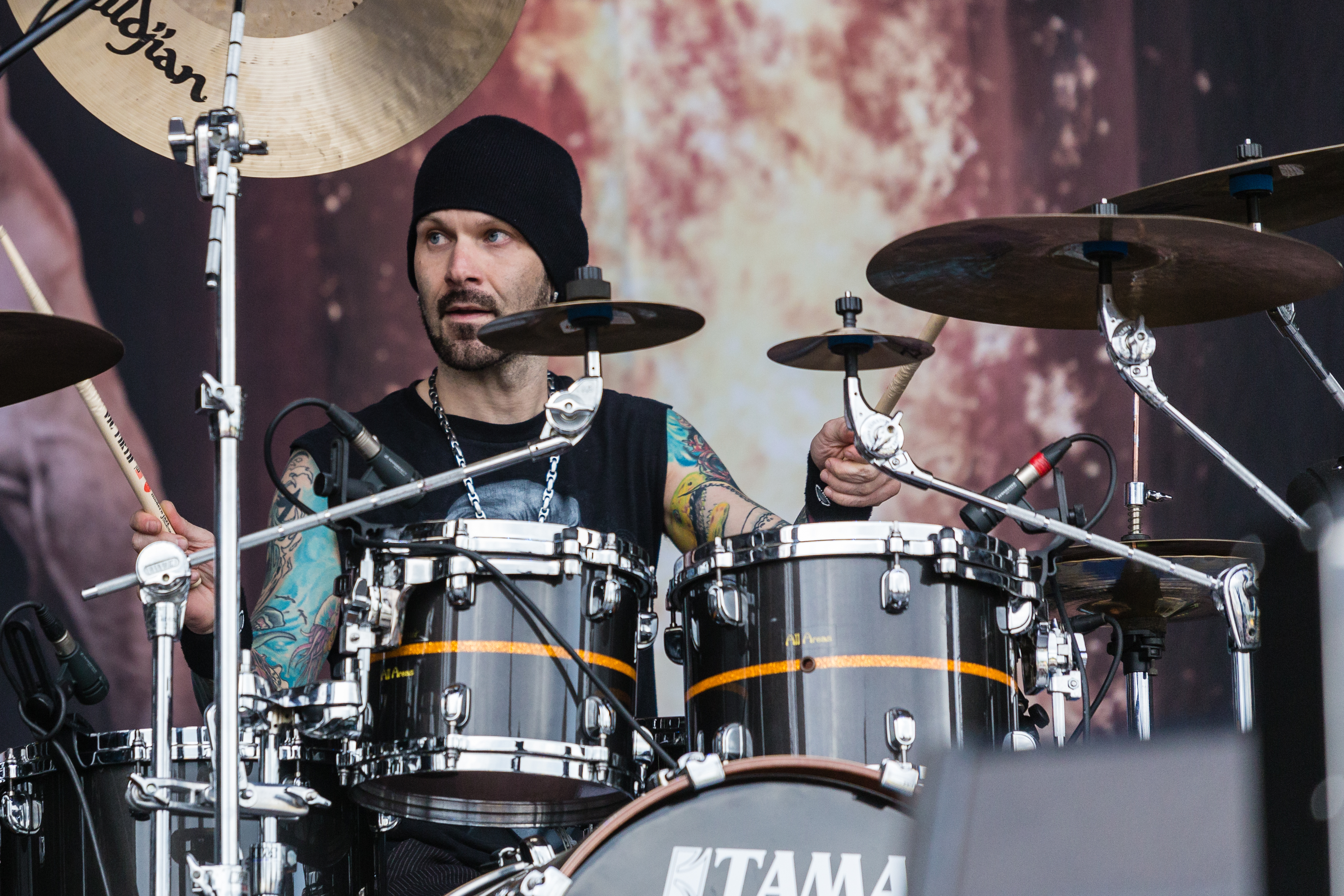 Nova Rock 2017 Chad Szeliga from Black Star Riders at the Nova Rock 2017